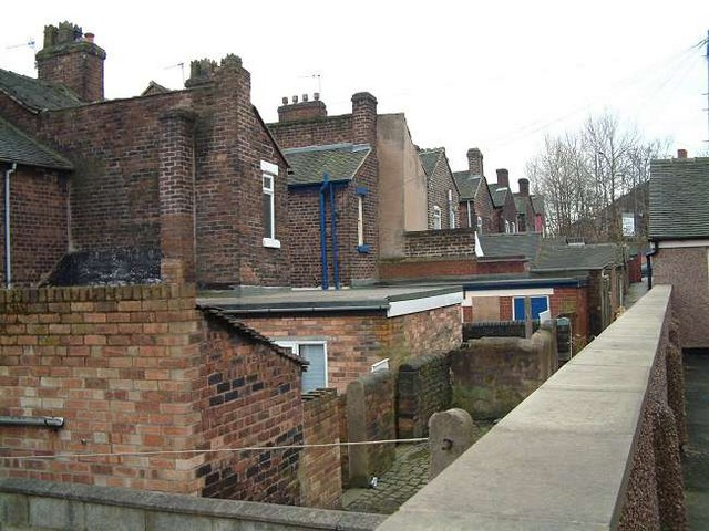 Terrace Housing - back yards, Eastwood, Hanley